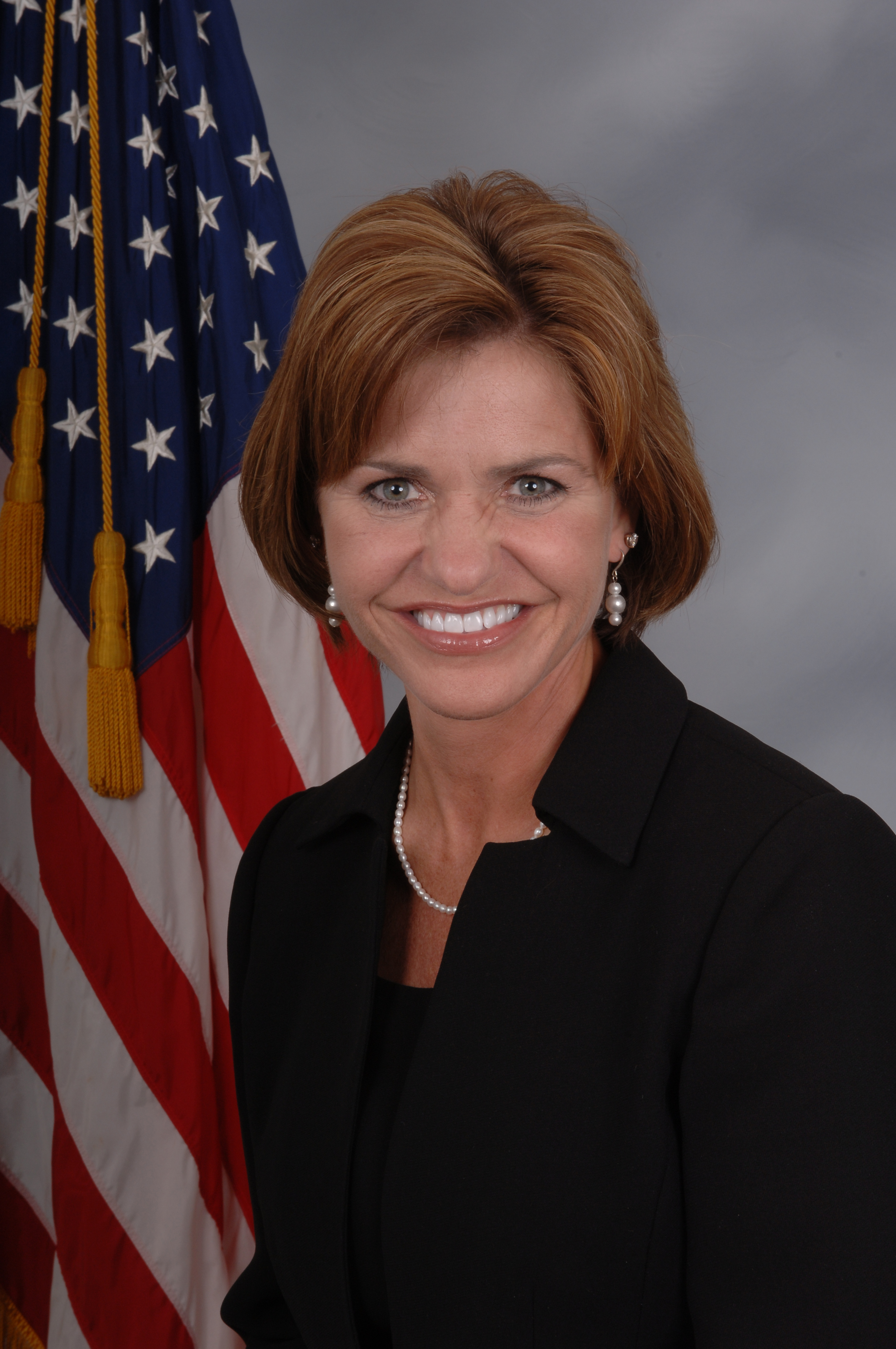 Official House portrait of Congresswoman Lynn Jenkins (R-KS).